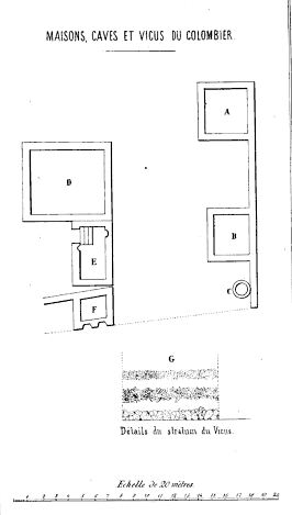 Small gallo-roman houses and path found near some therms in Triguères, Loiret, France.